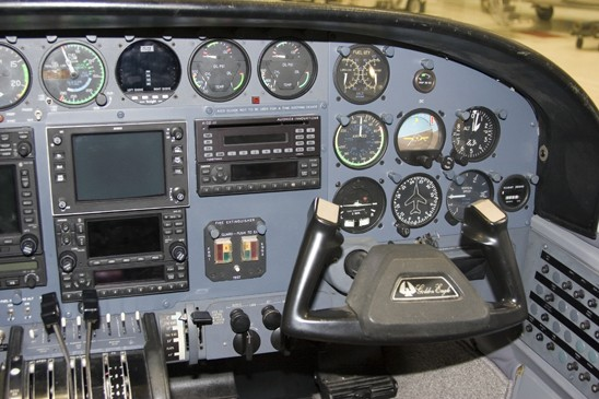 Cessna 421C Co-Pilot's panel instrumentation